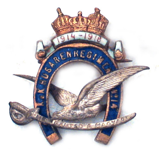 K.u.K. 14. Huszárezred sapkajelvénye